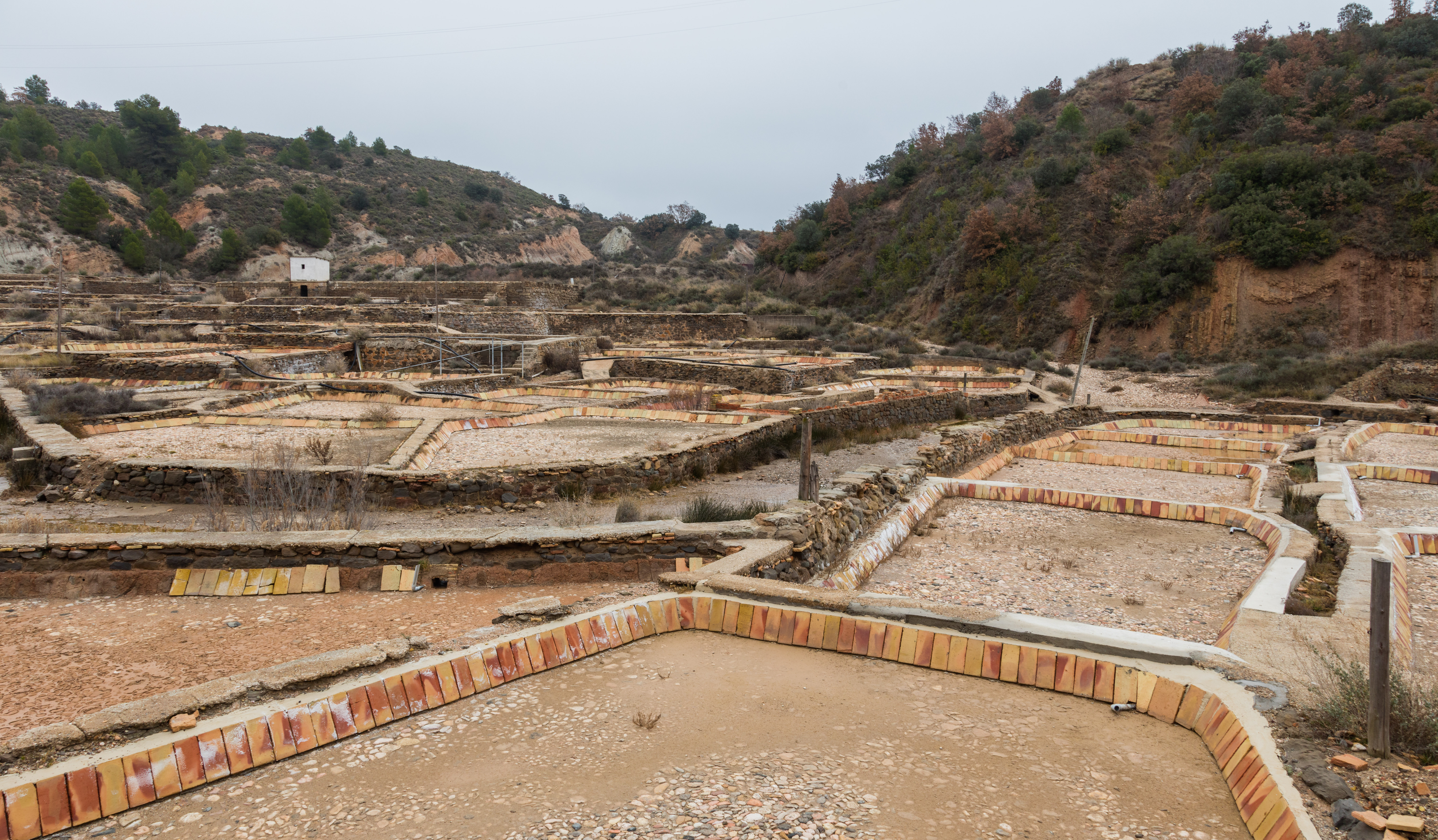 Salt evaporation ponds of Peralta de la Sal, Huesca, Spain